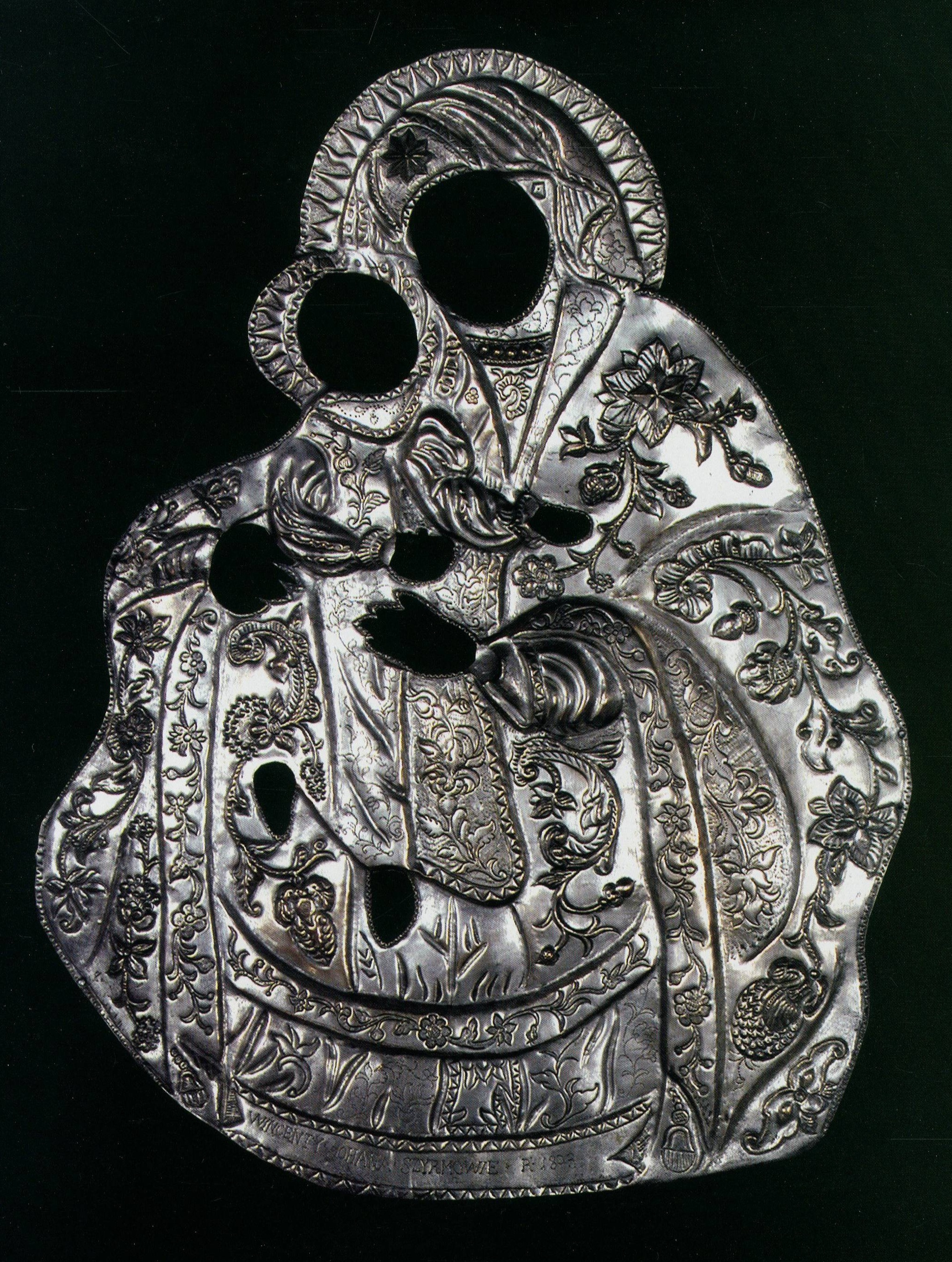 METAL MOUNTING OF ICON THE HOLY VIRGIN OF COMPASSION. 1803. Metal, minting, silvering. The Holy Virgin Nativity Church, Parakhonsk, Pinsk district, Brest region